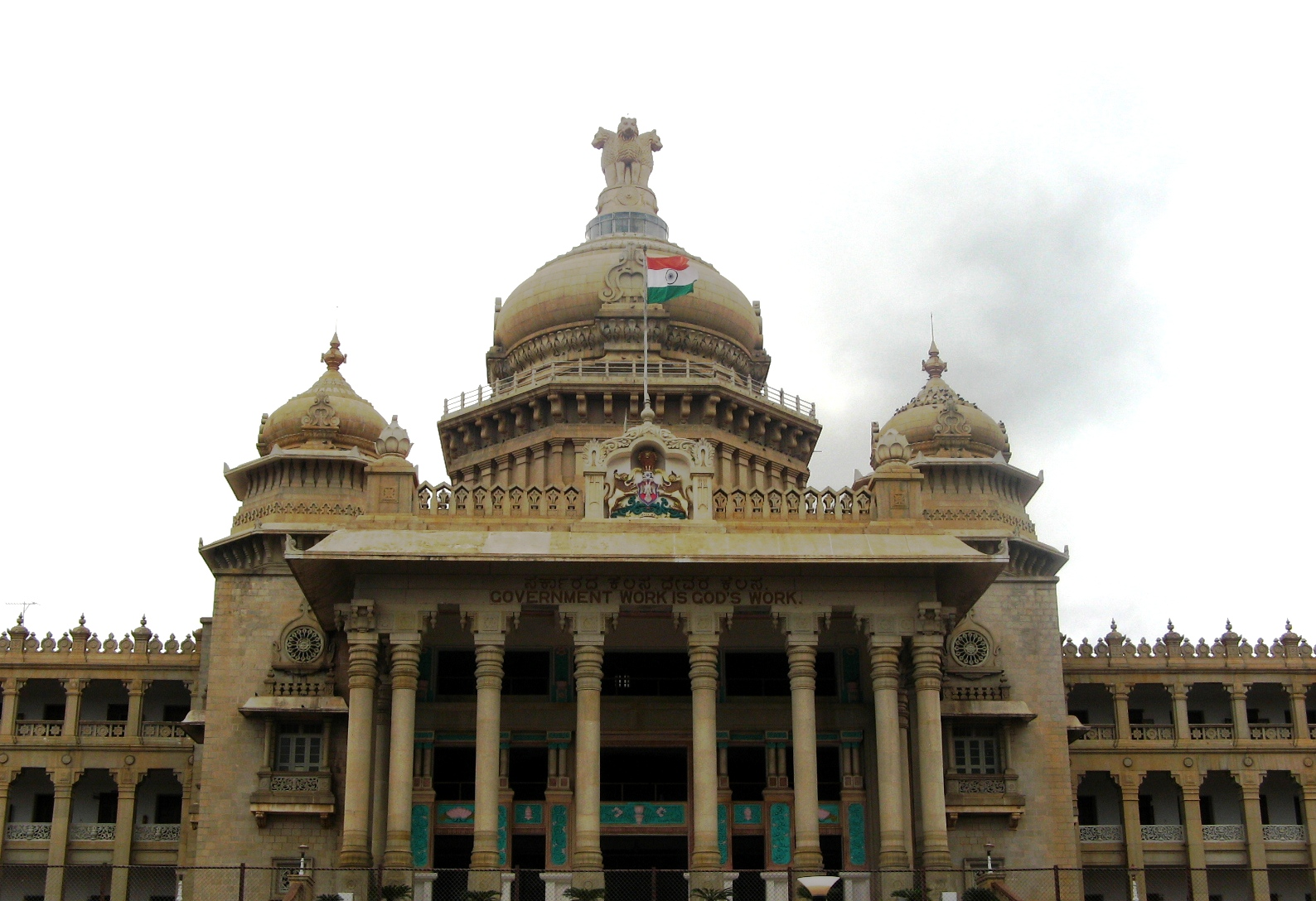 Front view of Vidhan Soudha, Bangalore.